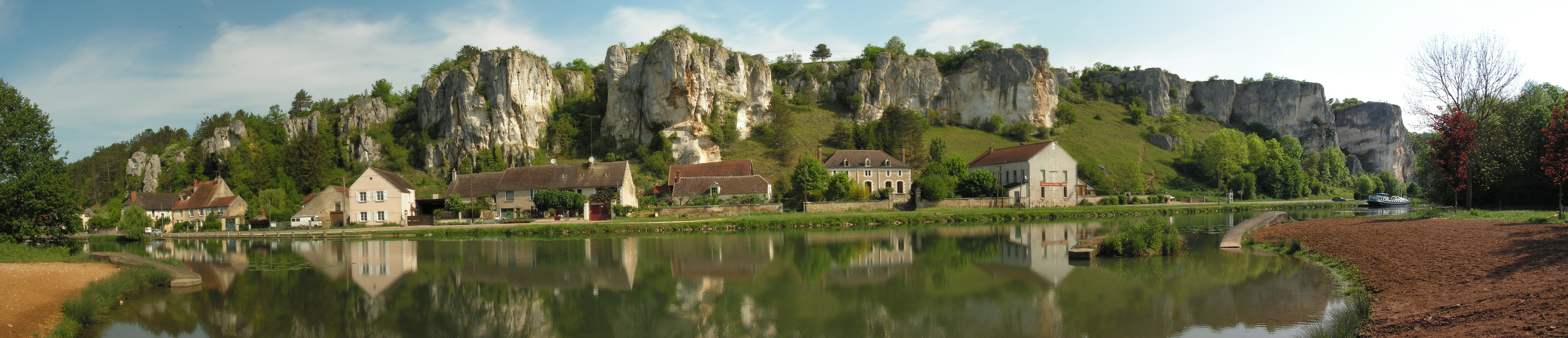 Les Rochers du Saussois. Limestone cliffs situated beside the River Yonne in the Commune of Merry-sur-Yonne.